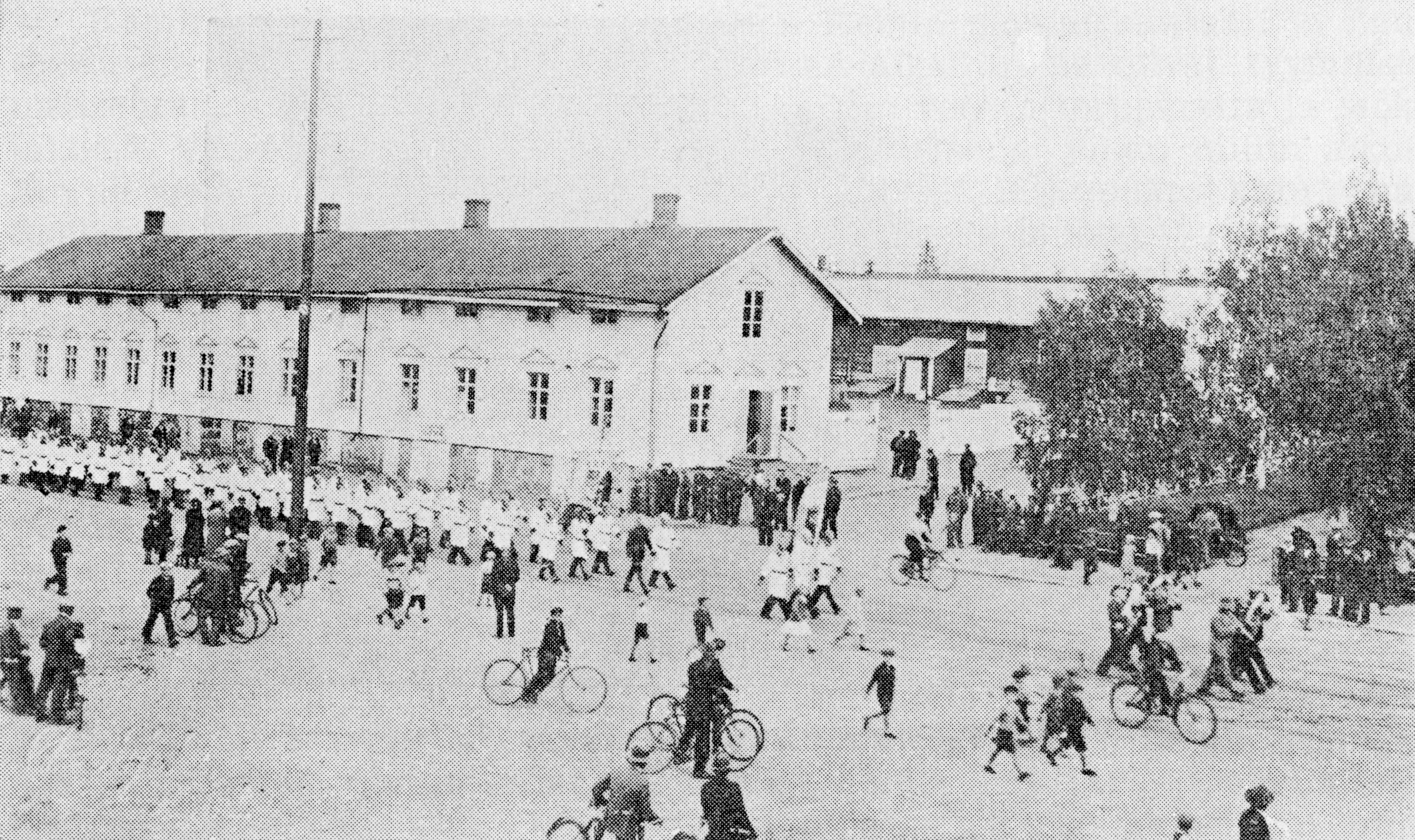 Volunteer fire department marching in Kemi, Finland in 1921.